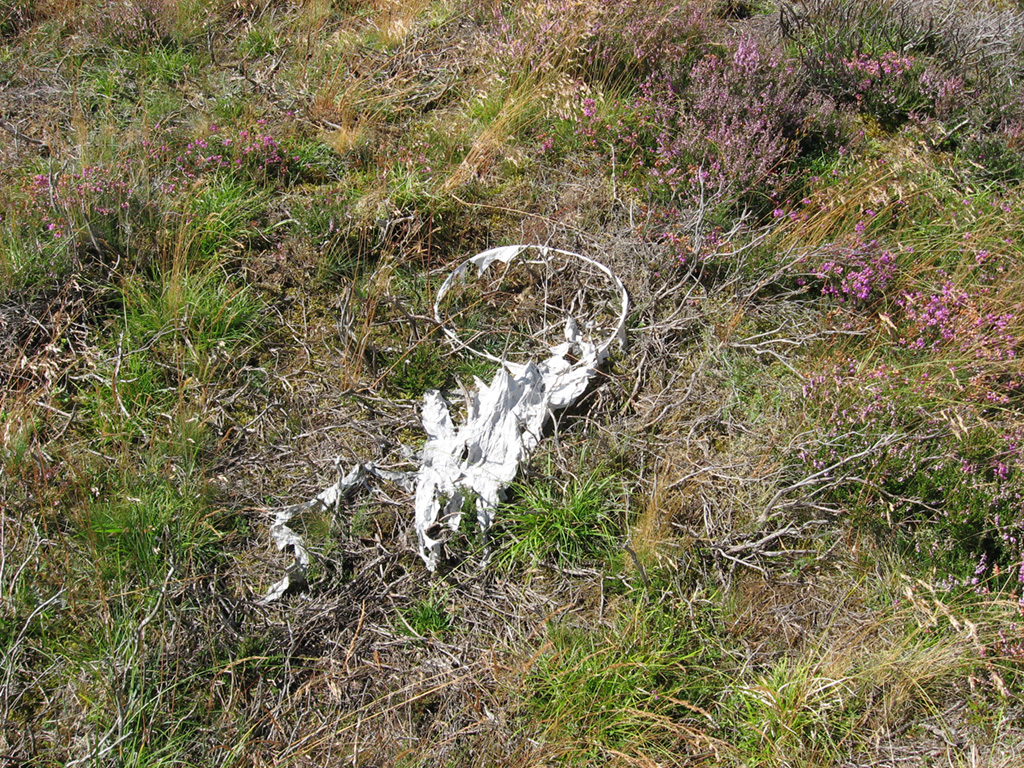 Free to use if credit given to Scottish Natural Heritage. A chinese lantern found at Muir of Dinnet National Nature Reserve in Scotland.